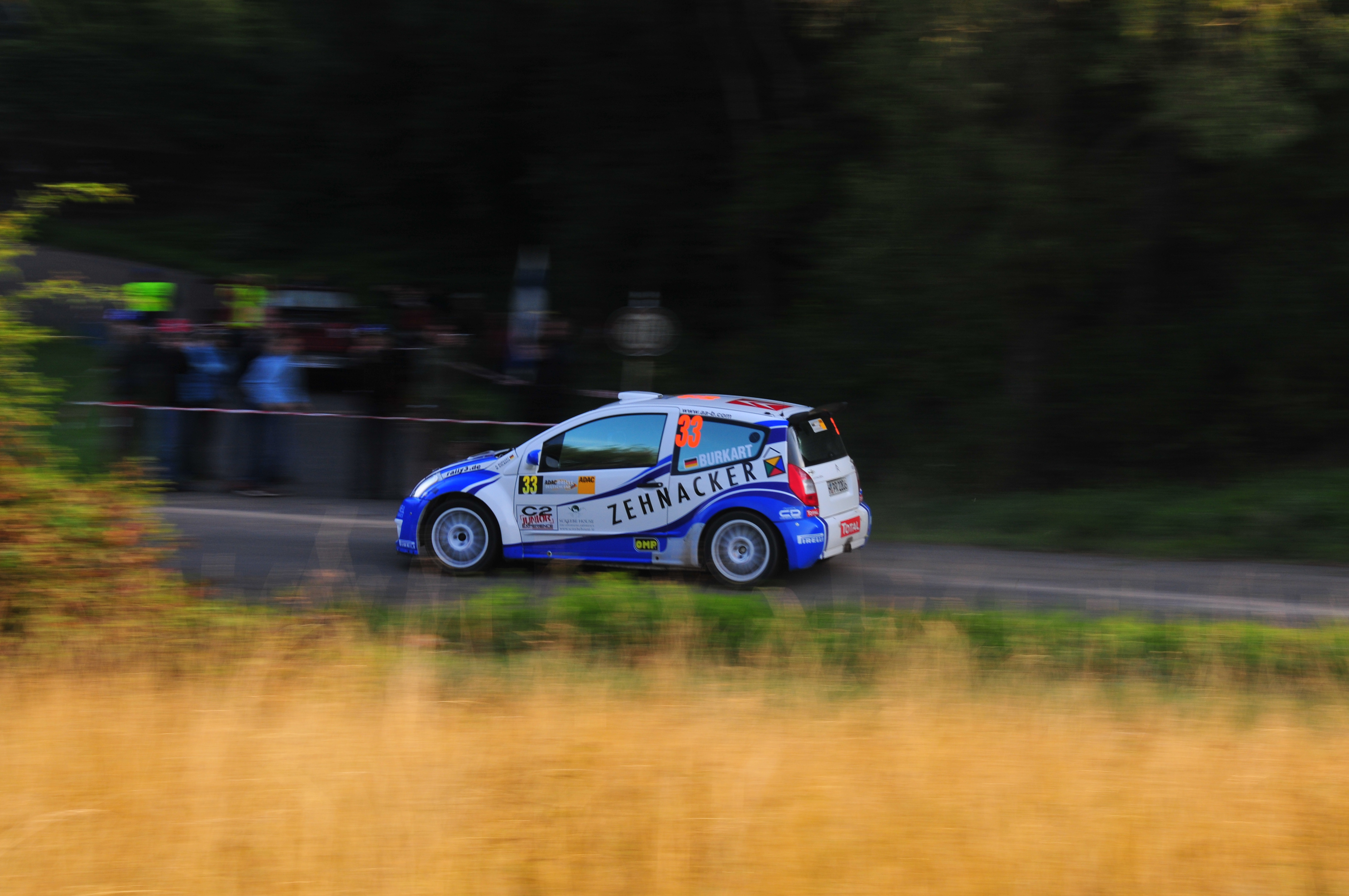 Aaron Burkart driving his Citroën C2 S1600 at the 2008 Rallye Deutschland.